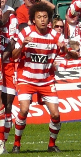 Jason Price, cropped from Bristol Rovers vs Doncaster Rovers